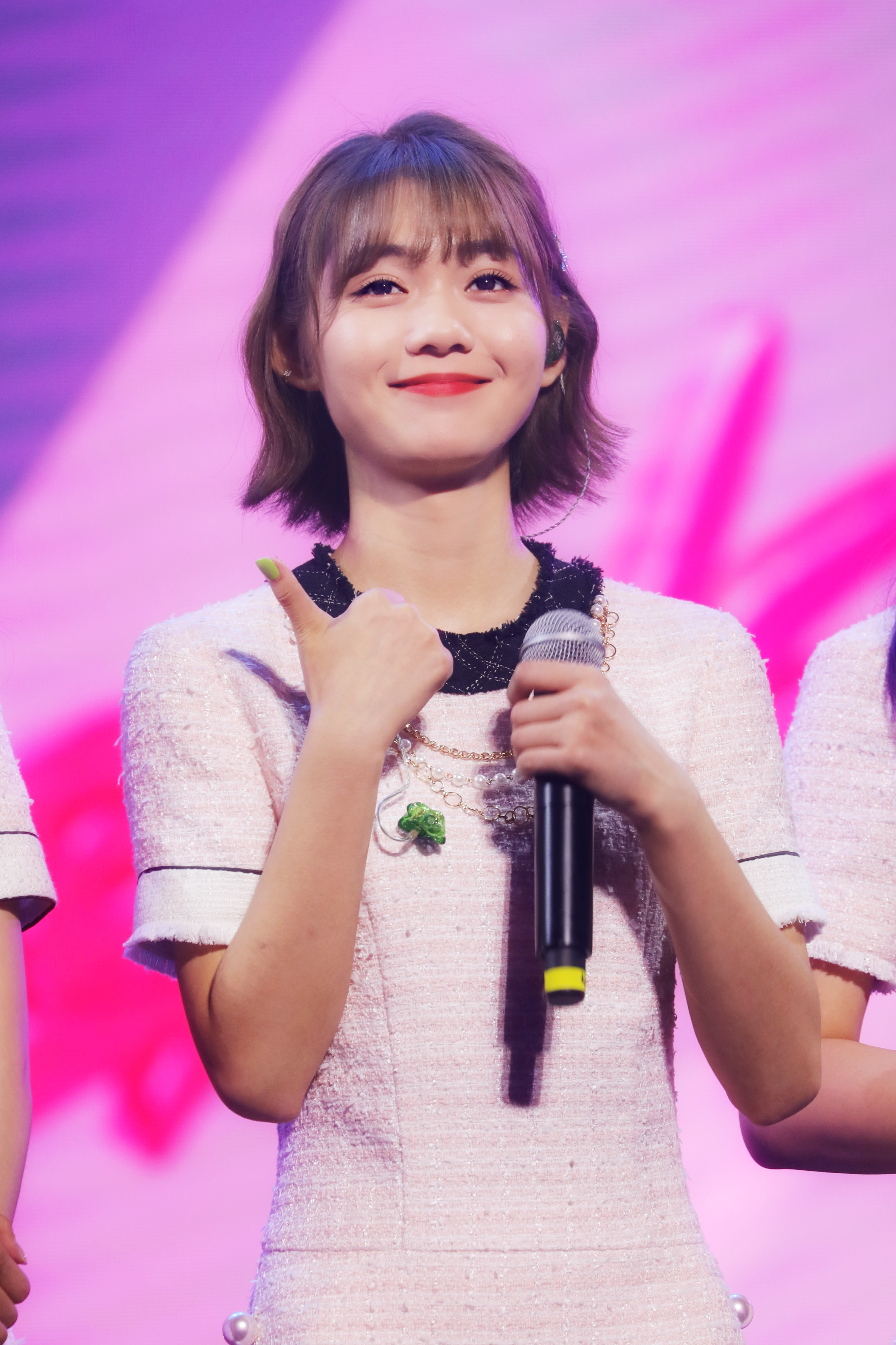 Aojuan Clare Duan was giving a thumbs-up in Rocket Girls 101 Anniversary Fan Meeting which was held in June 22nd, Hangzhou, China.